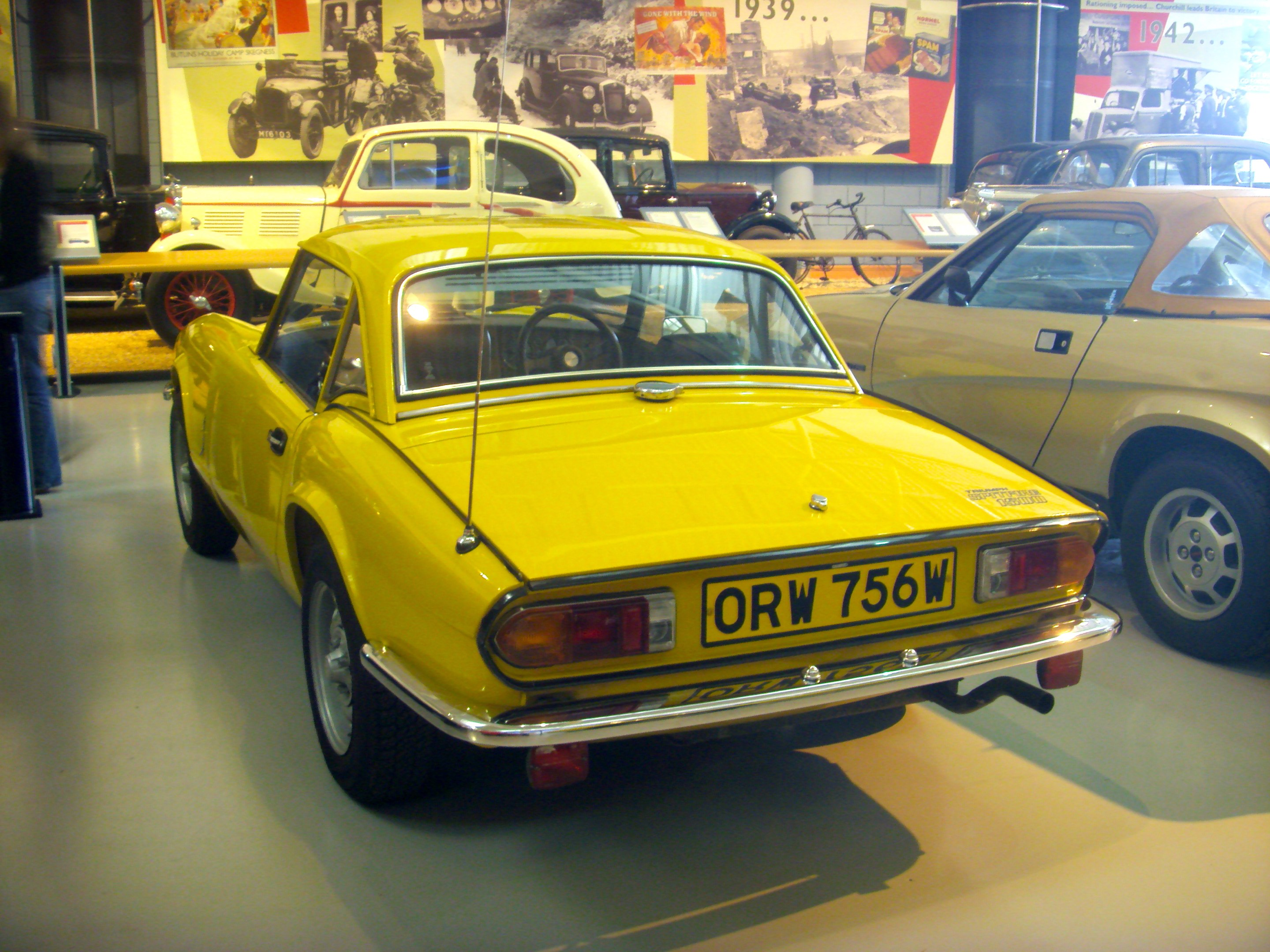 The last Spitfire off the line.